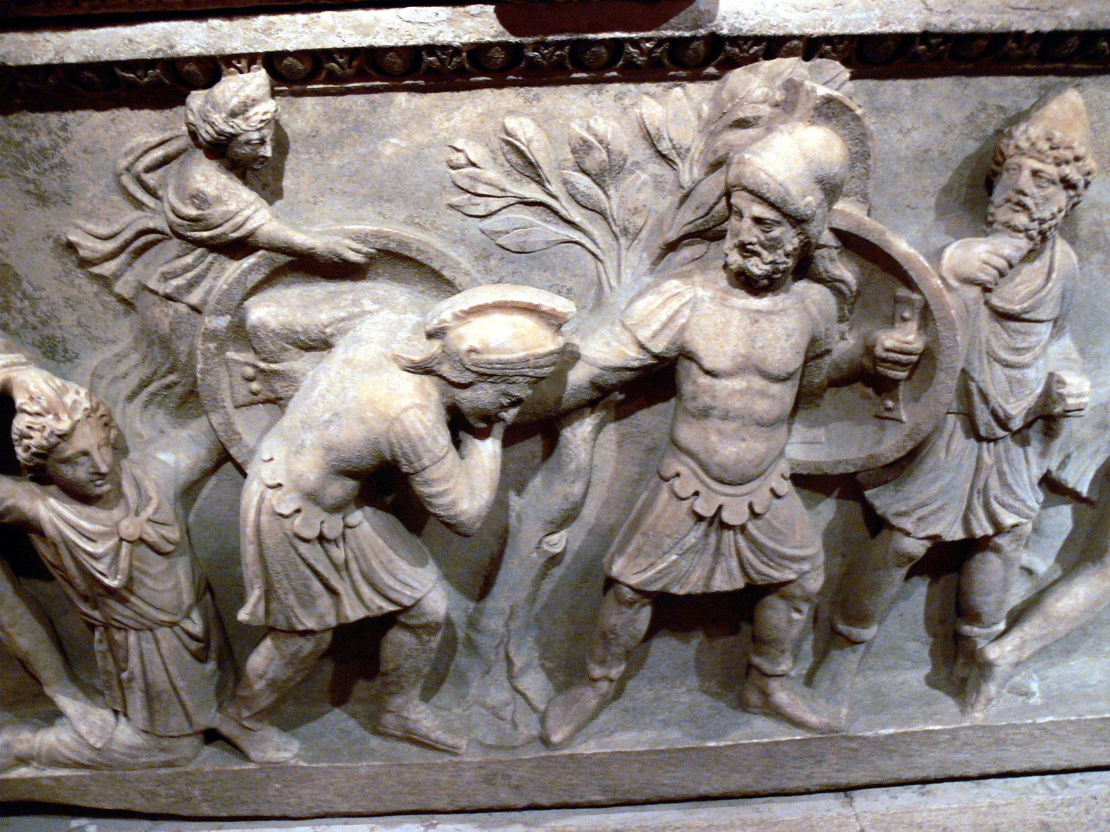 Antalya Archaeological Museum. Ancient Roman sarcophagus of Aurelia Botania Demetria ( 2nd century AD ): Aphrodite is concealing Paris who is defeated by Menelaos. Odysseus is looking at the szene.